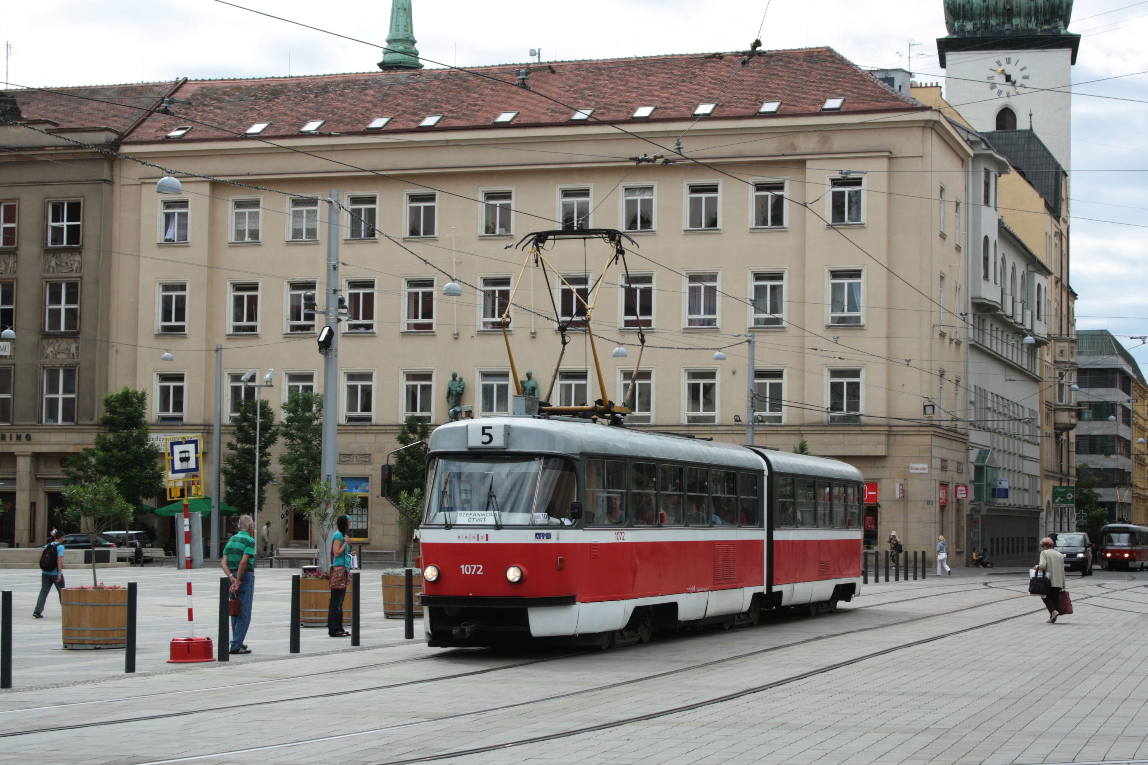 Tatra K2 tram No. 1072, Brno, Czech Republic This photograph was taken with a DSLR from WMCZ's Camera grant.